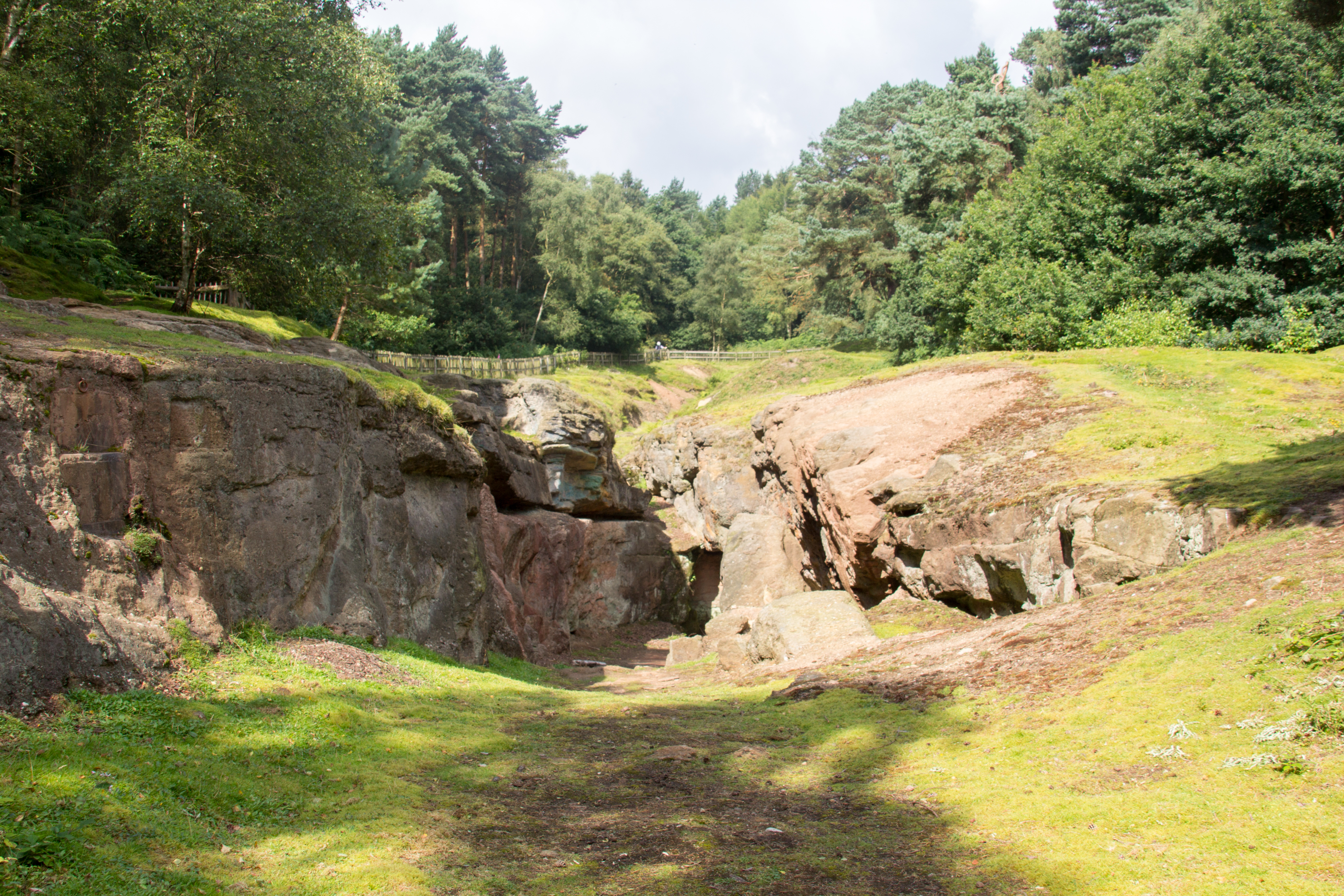 Engine Vein, Alderley Edge Mines, United Kingdom